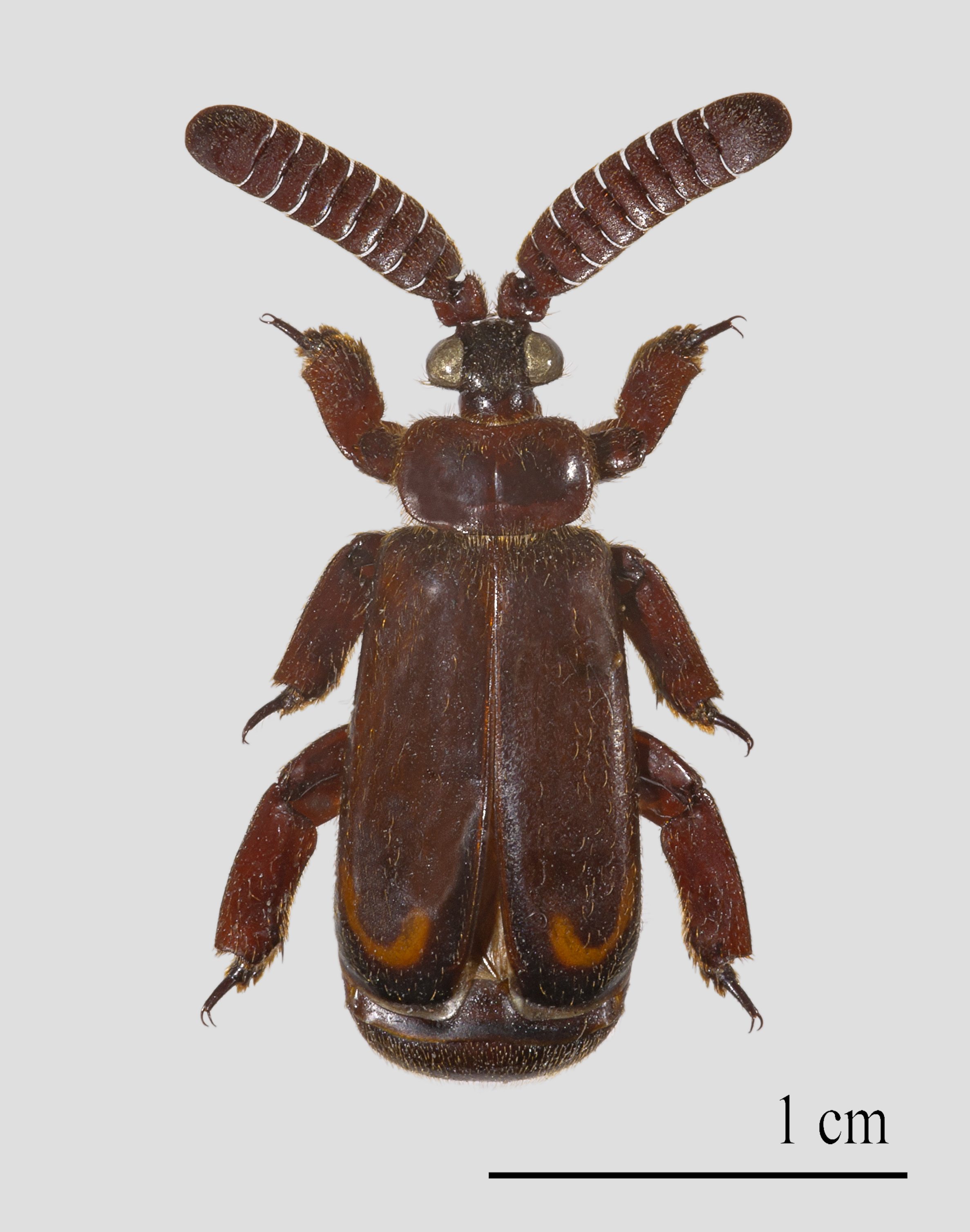 Male specimen Locality: Kafue, Zambia